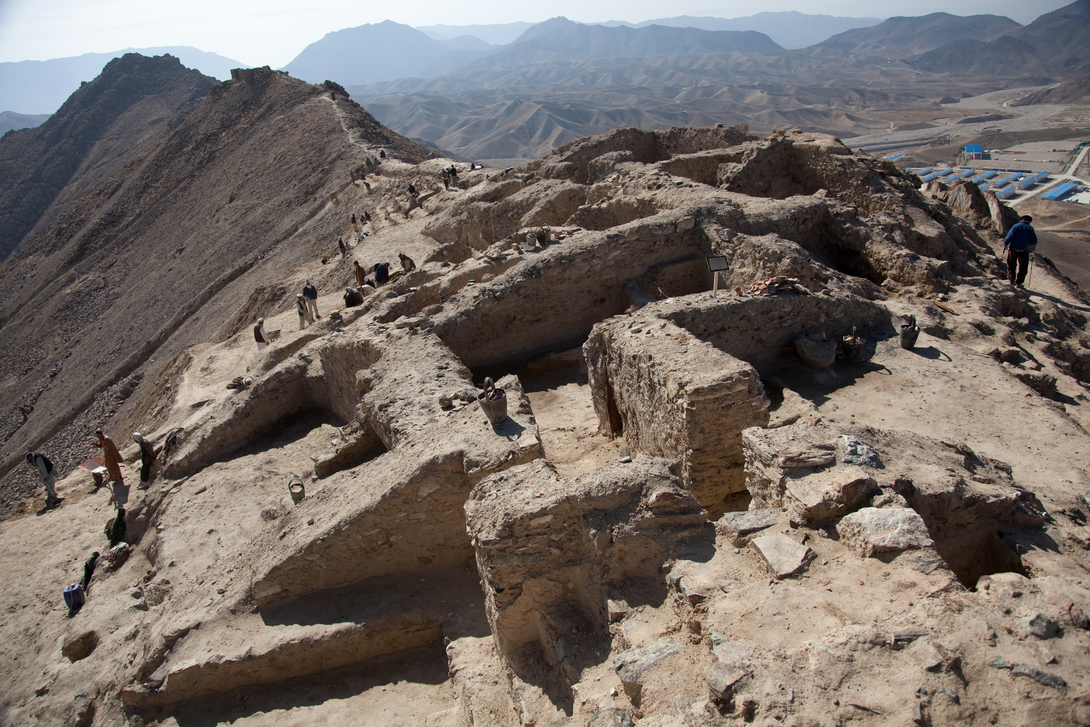 Archeologists have uncovered countless priceless artefacts at an ancient Buddhist settlement roughly 35km south Kabul. The site includes an ancient copper mine, a series of monasteries, and what may be homes or workshops at Mes Ainak in Logar province. A Chinese state mining company, MCC, won a $3bn contract in 2007 to mine the rest of the copper deposit, one of the largest in the world, which sits directly beneath the ancient settlement. They have built a camp for their workers but are yet to break ground on a railway and a power station which were supposed to be included in the terms of their contract.